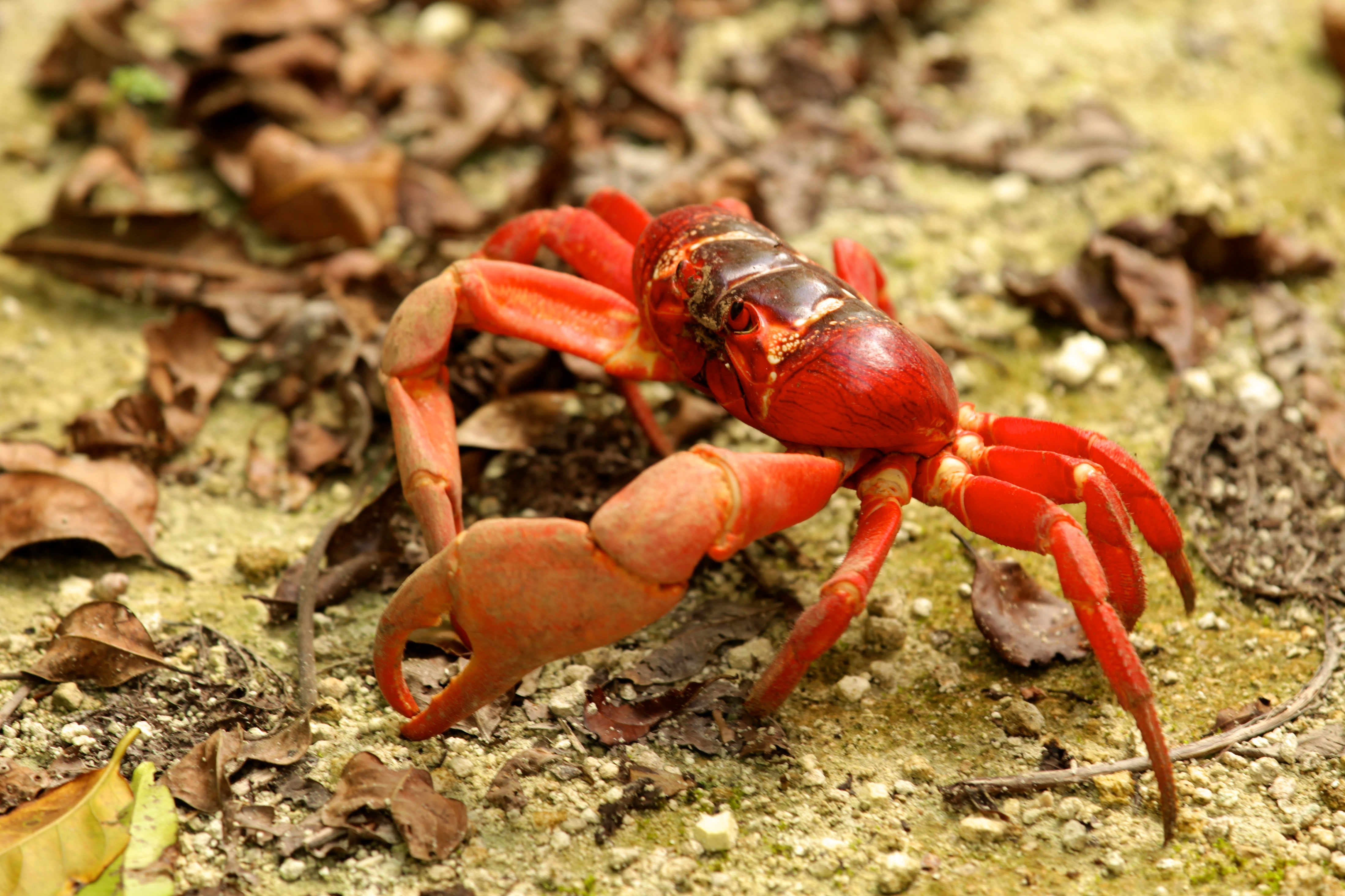 The Christmas Island red crab, Gecarcoidea natalis, is a species of terrestrial crab endemic to Christmas Island in the Indian Ocean.